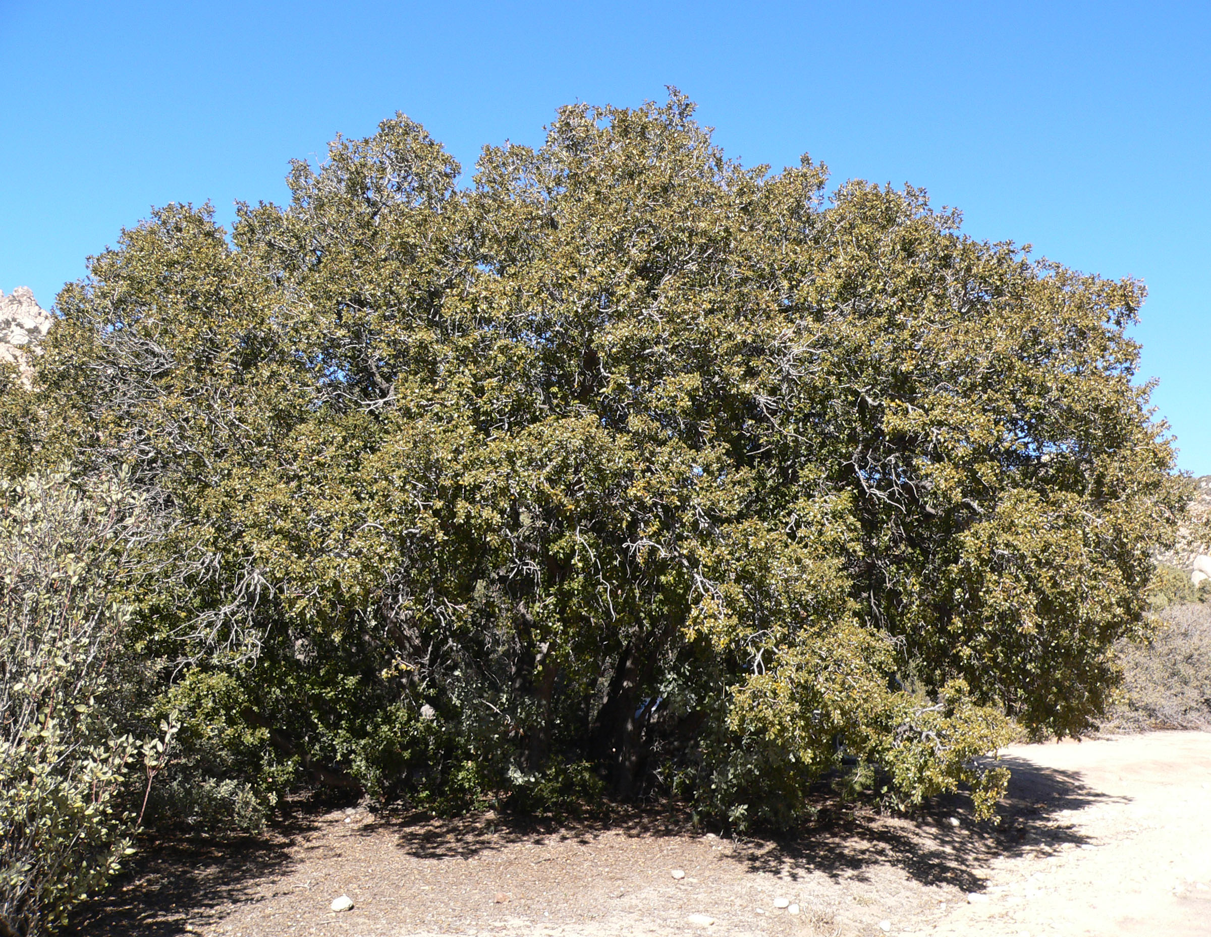 Quercus chrysolepis in Caruthers Canyon, New York Mountains, Mojave National Preserve, southern California